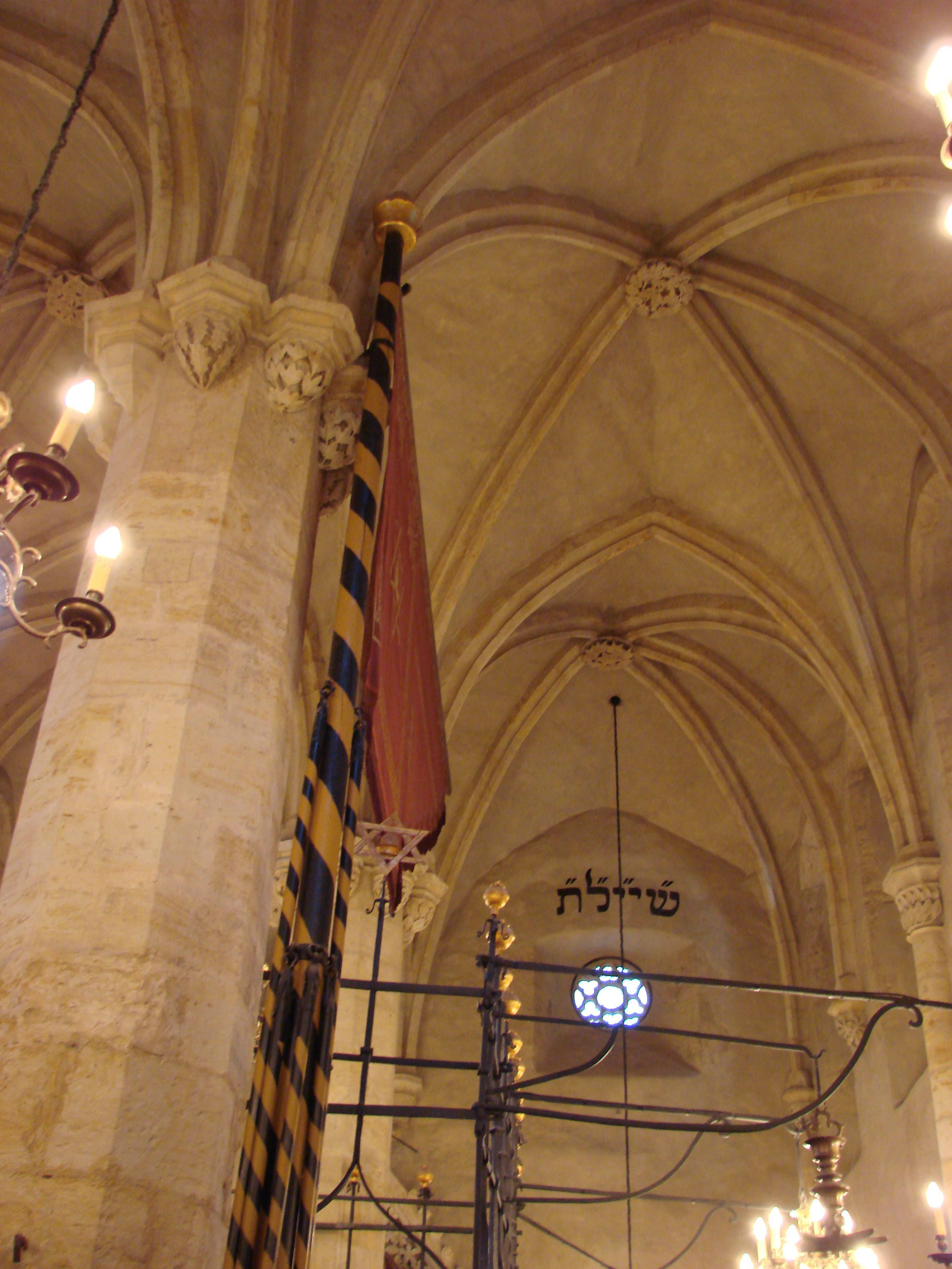 I took this photograph in August 2006. This is the Old New synagogue in Prague.